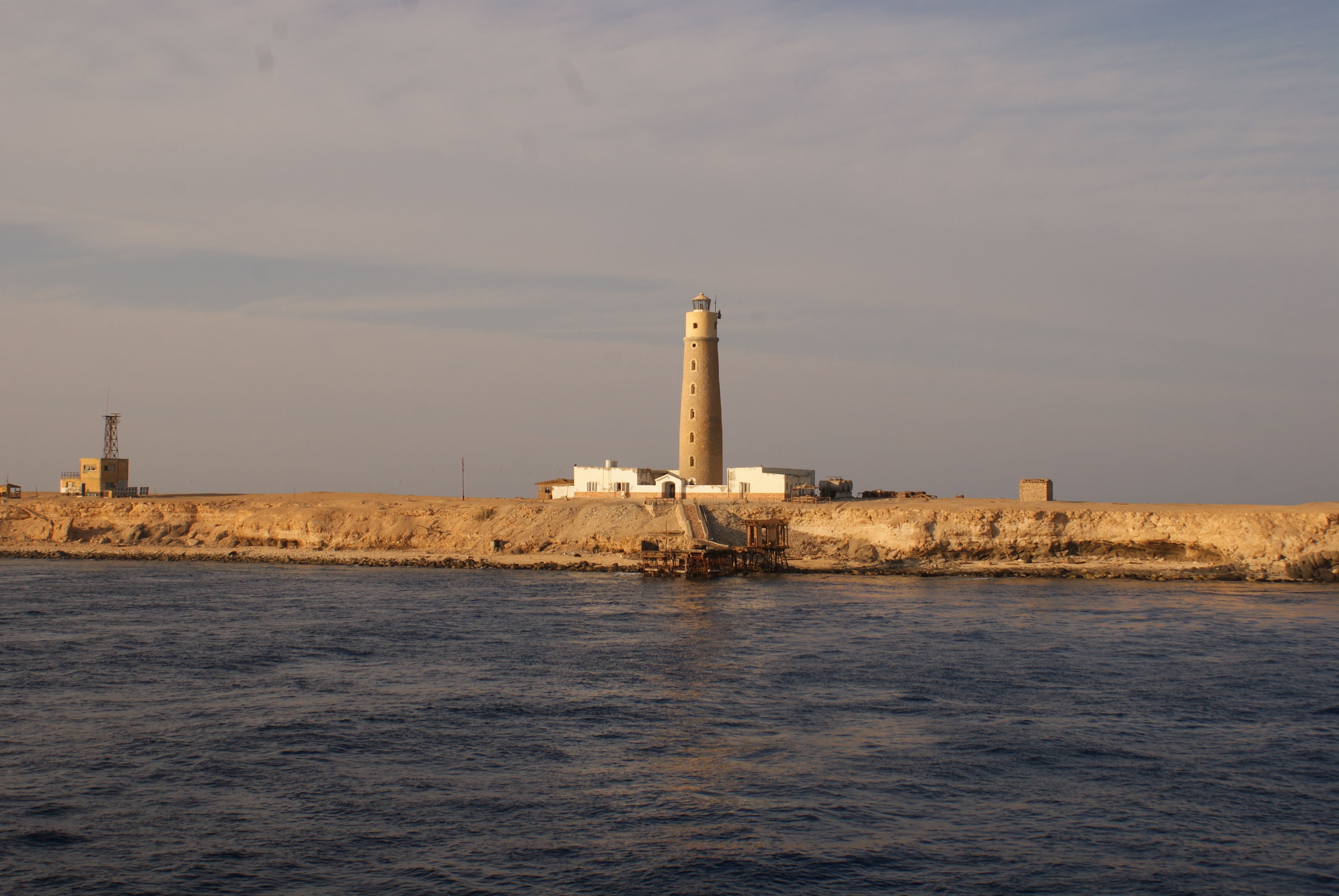 Big Brother Island, Read Sea, Egypt